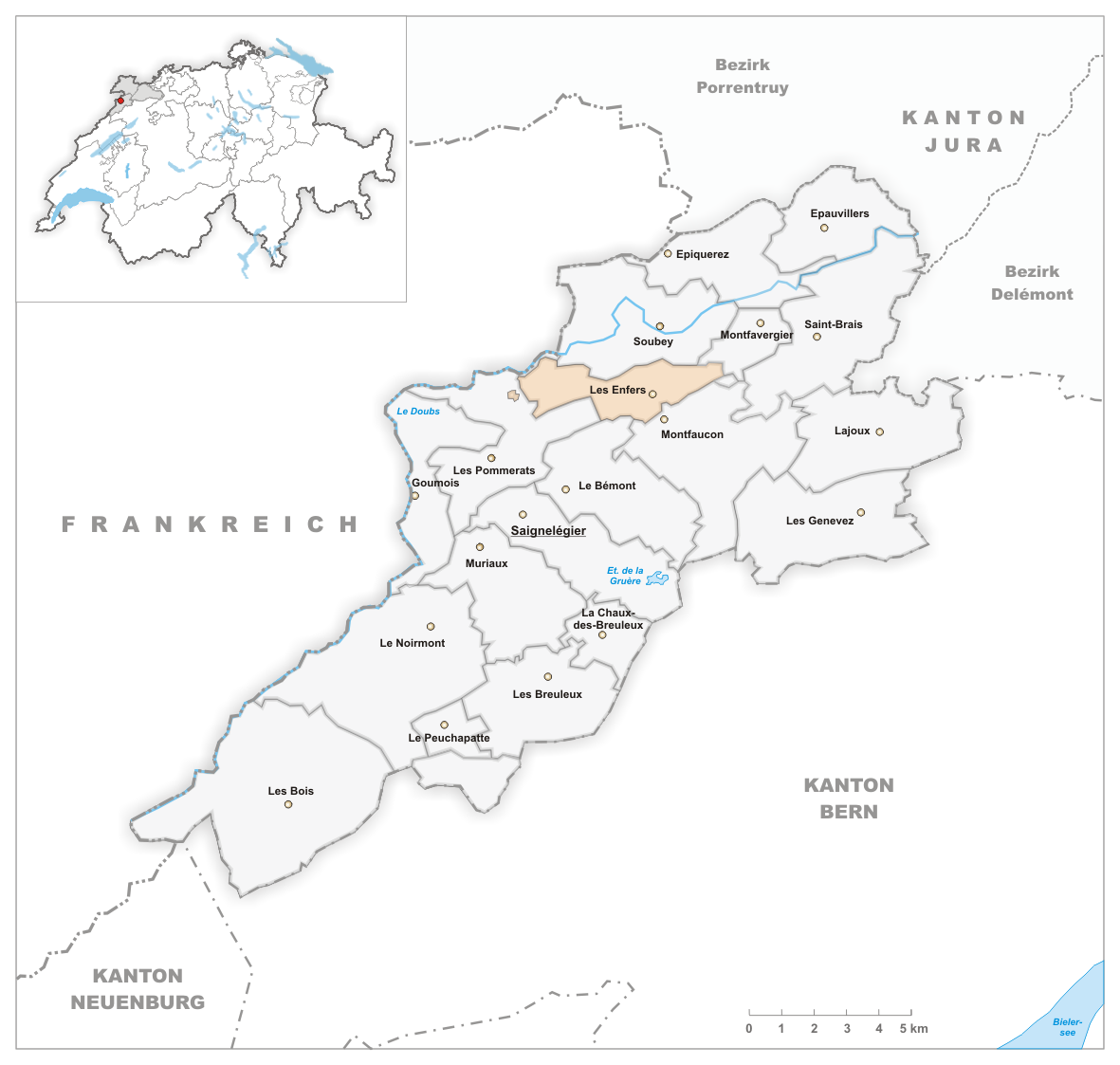 Municipality Les Enfers